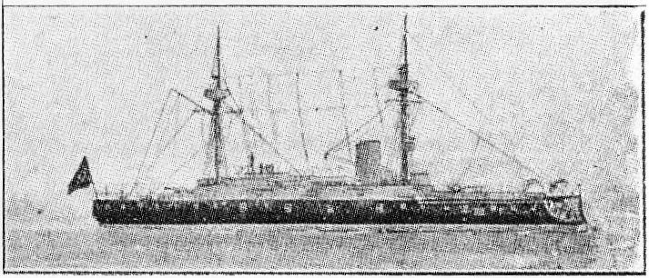 The Turkish battleships of the Osmanieh-class were refitted in the 1890's at Ansaldo in Genova.